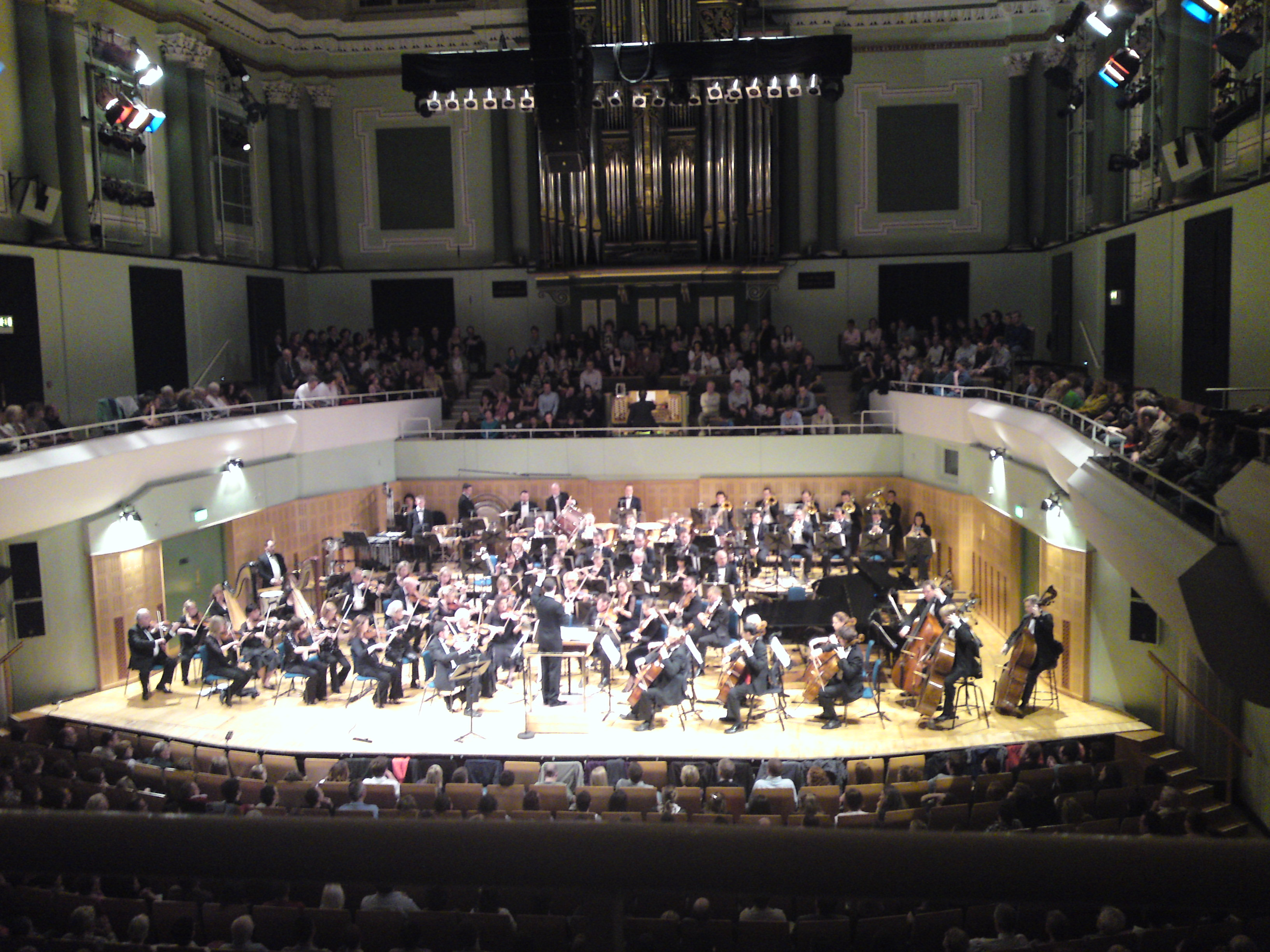 RTÉ Concert Orchestra performing in the National Concert Hall